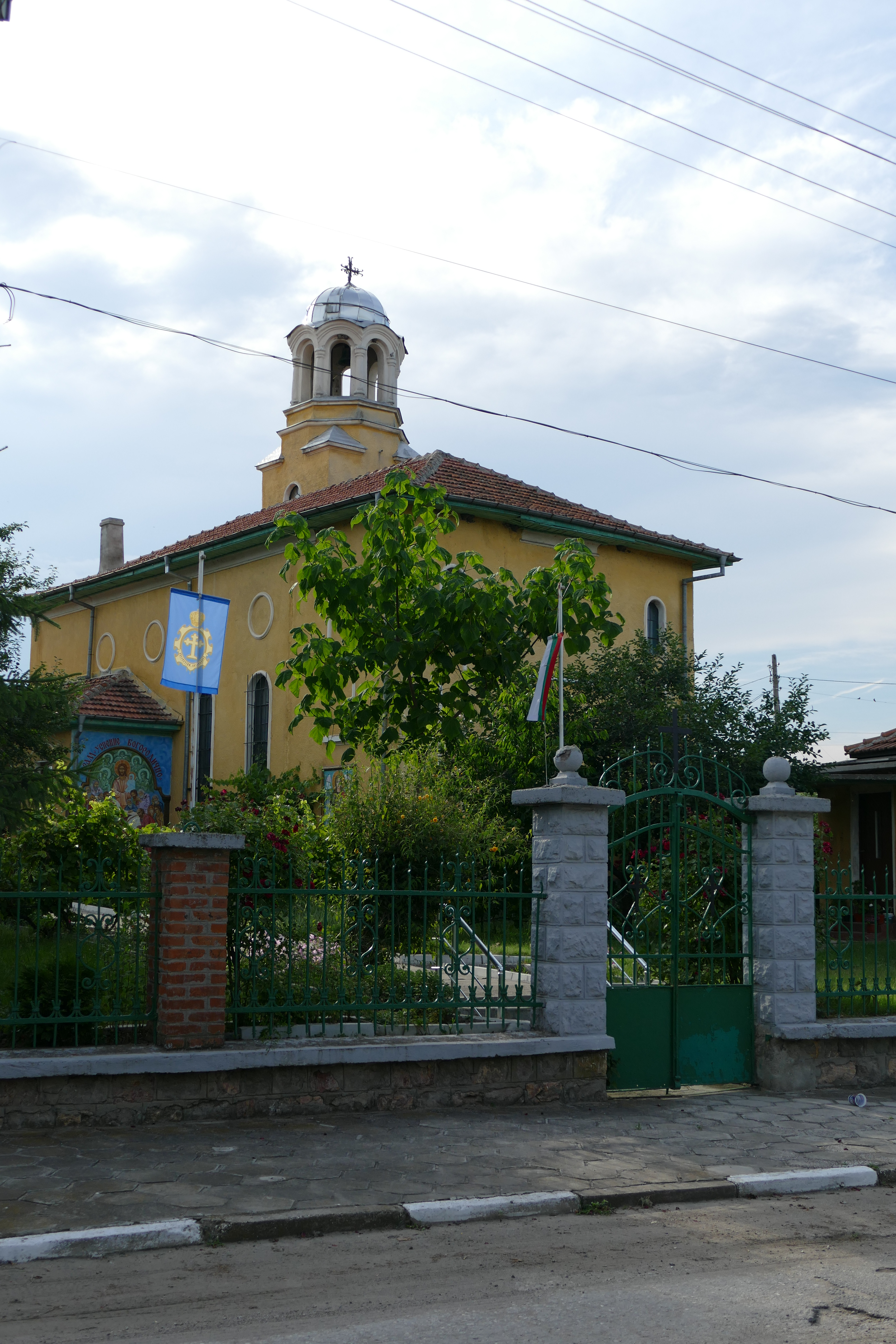 Church of the dormition of the mother of God in Varbitsa